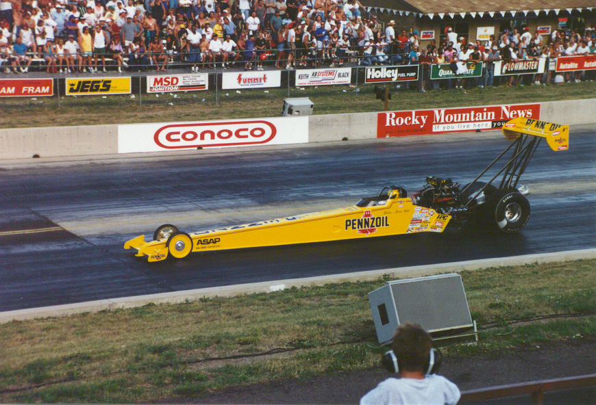 Eddie Hill, Denver. Hill was ranked the #14 driver on NHRA's Top 50 drivers list. I took this from the stands at Bandimere Speedway in Denver at the Mile-High Nationals but I'm not sure of the year. I would guess 1996 but that's not for sure. He had just finished his burnout and was about to back up to the line, his crew had not made it out to him yet (I was trying to beat them there). Bandimere is a great track but with the much higher elevation there, the crews really have to work some magic to get the cars to perform.Eddie Hill